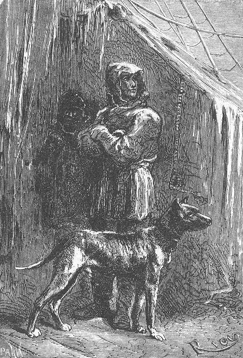 An illustration from Jules Verne's novel "Journeys and Adventures of Captain Hatteras", part I: "The English at the Noth Pole" drawn by Édouard Riou and/or Henri de Montaut.